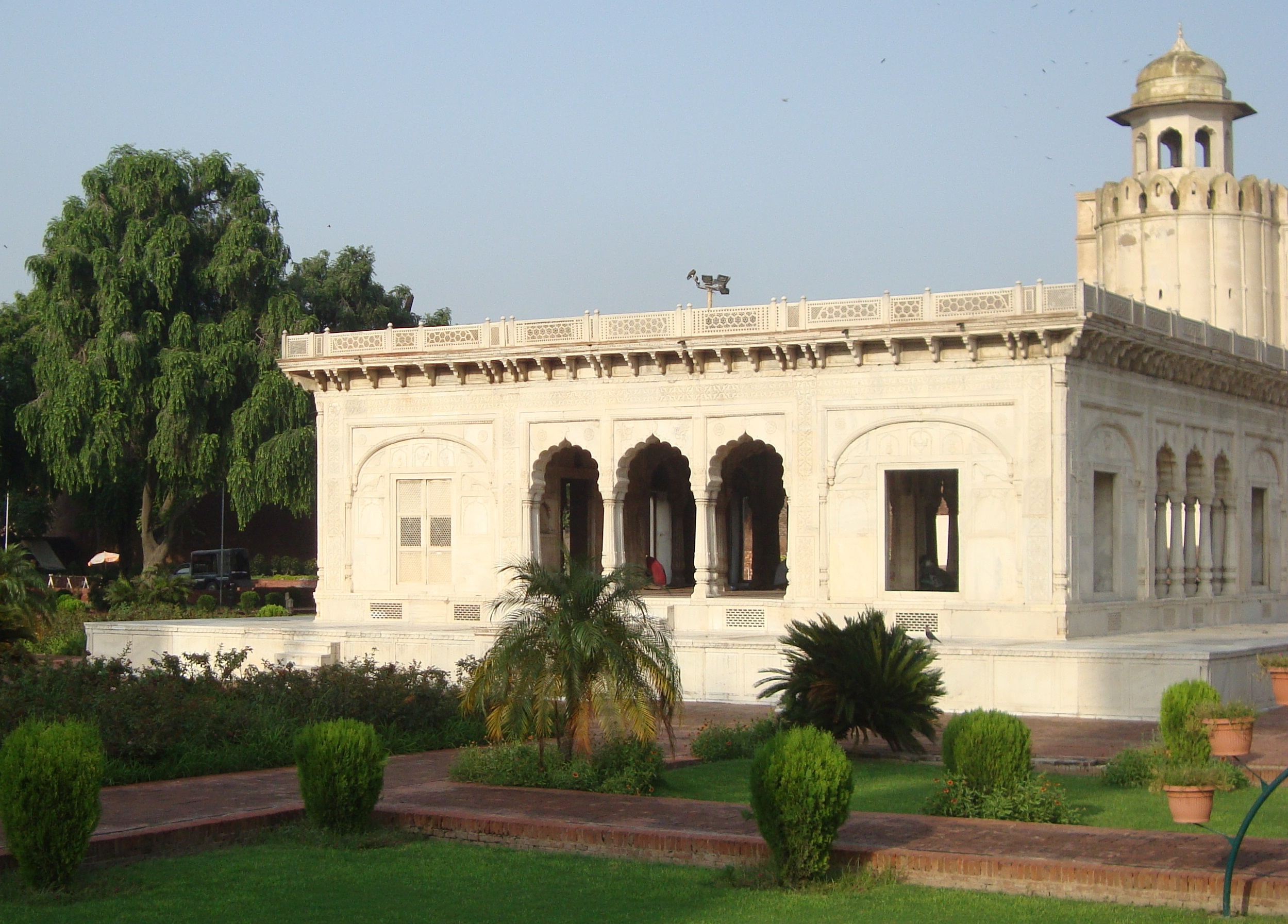 Hazuri Bagh This is a photo of a monument in Pakistan identified as the PB-60